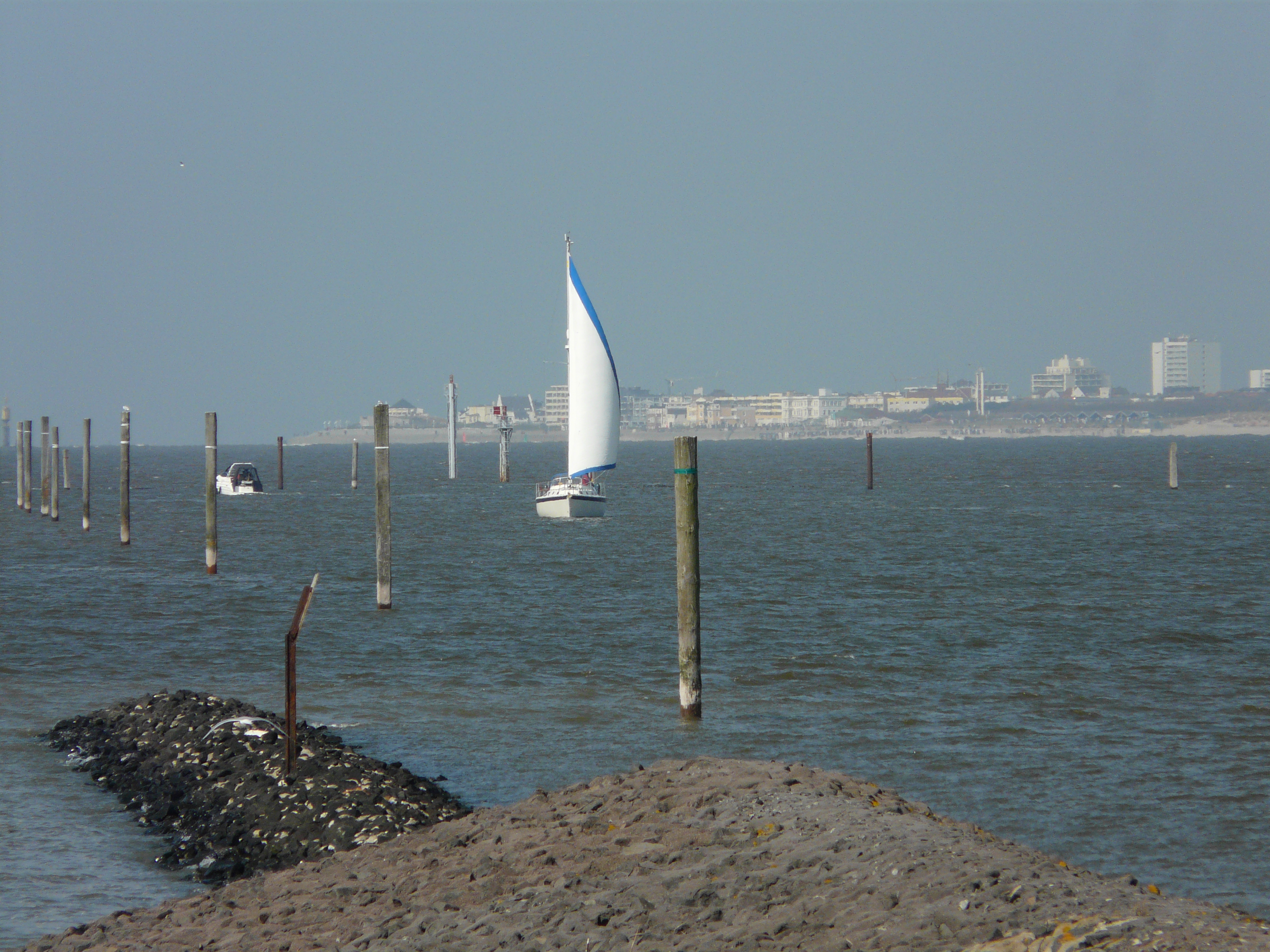 View towards Norderney, from Norddeich pier, looking over the shipping channel